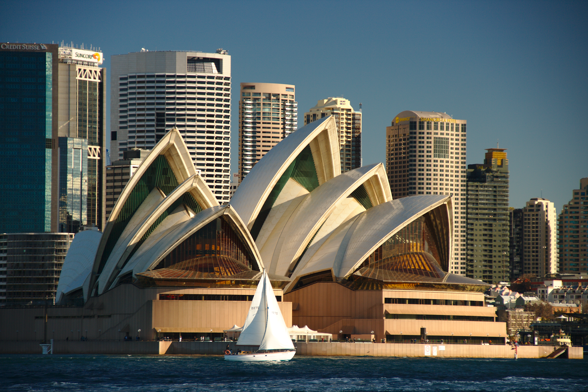 On the ferry coming back from Taronga Zoo